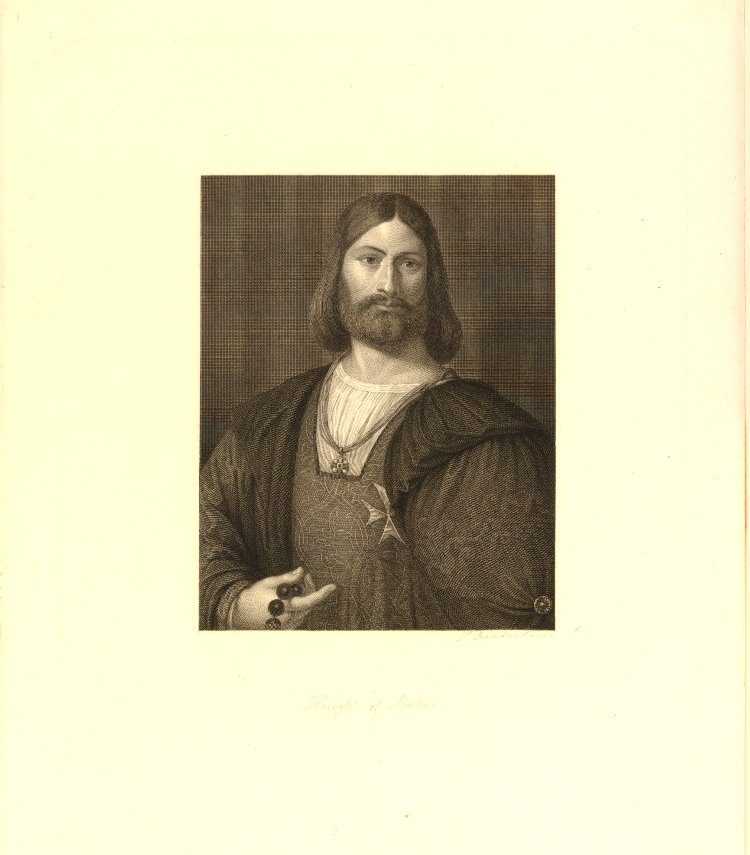 Bust portrait of a knight of Malta, a proof impression before letters.